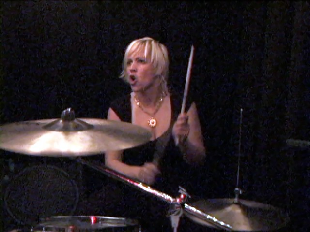 Lay Lay, of the group Von Iva, performing live at Cake Shop NYC on Aug 25, 2007. Video still from PUNKCAST#1193